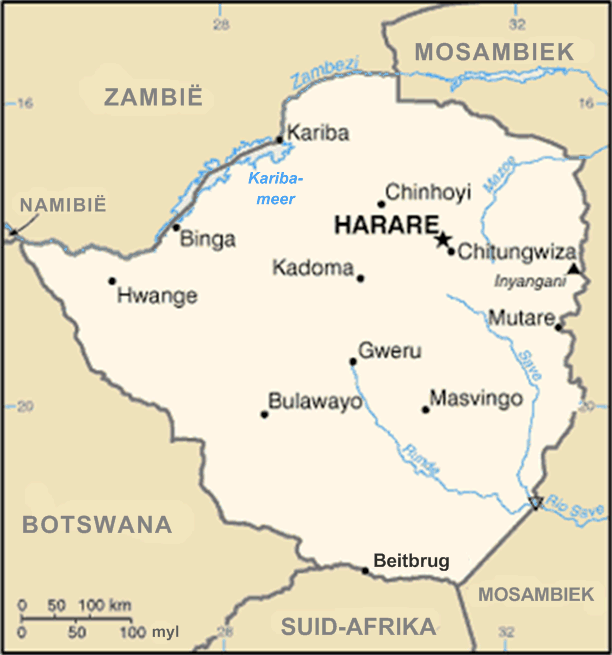 An Afrikaans map of Zimbabwe.